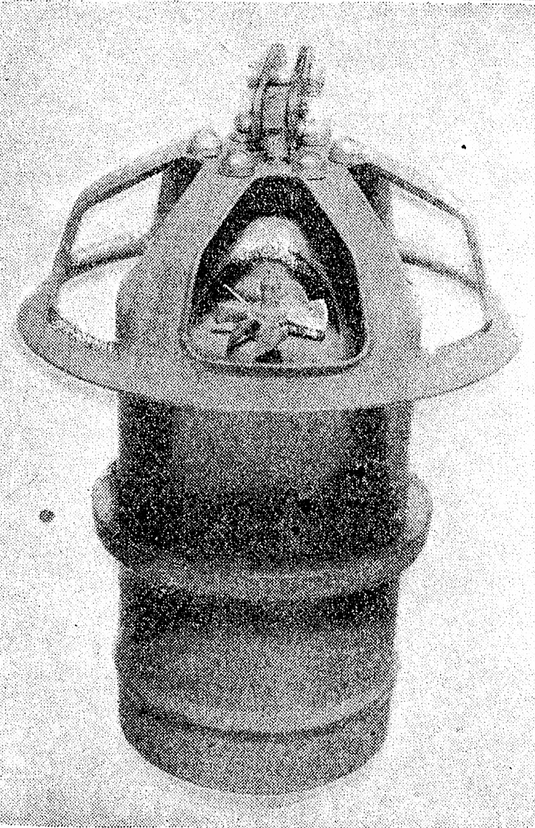 Image of the small yellow bomb, a device used in an anti-aircraft role. Detail from: Civil Defence Training Pamphlet No 2: Objects Dropped From The Air (3rd Edition). Issued by the Ministry of Home Security. This training pamphlet described some of the objects which could be found on the ground after and air-raid, including certain items which, though not of enemy origin, may be mistaken for hostile weapons, and others that may drop from the air at any time.